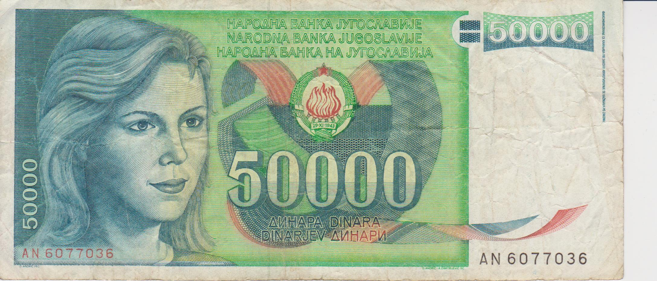 50 thousand Yugoslav dinar 1988